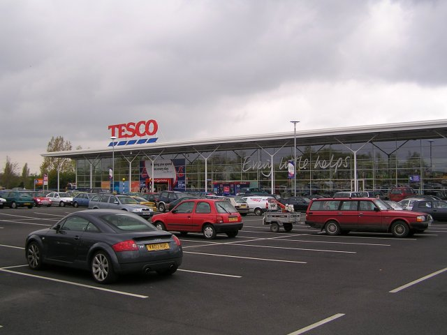 Tesco's store Evesham. Subject to controversy when built, love it or hate it, it's now there!